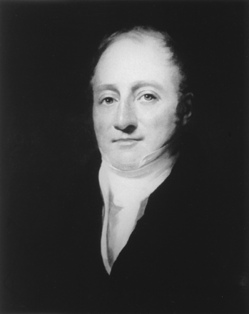 Engraving of a portrait of Alexander Marcet, the physician and scientist